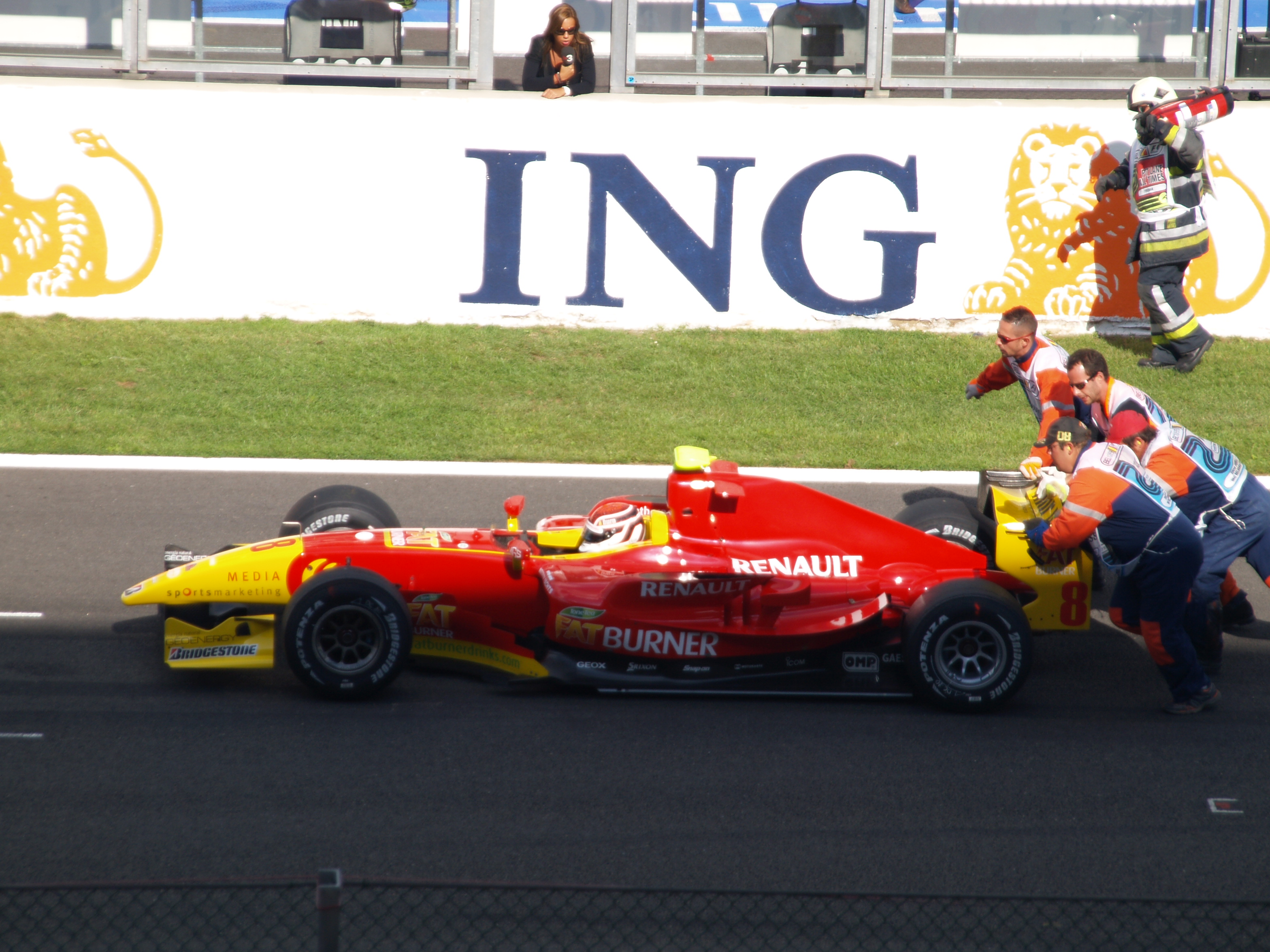 Dani Clos is pushed off the grid of one of the races at the Spa-Francorchamps round of the 2009 GP2 Series season.